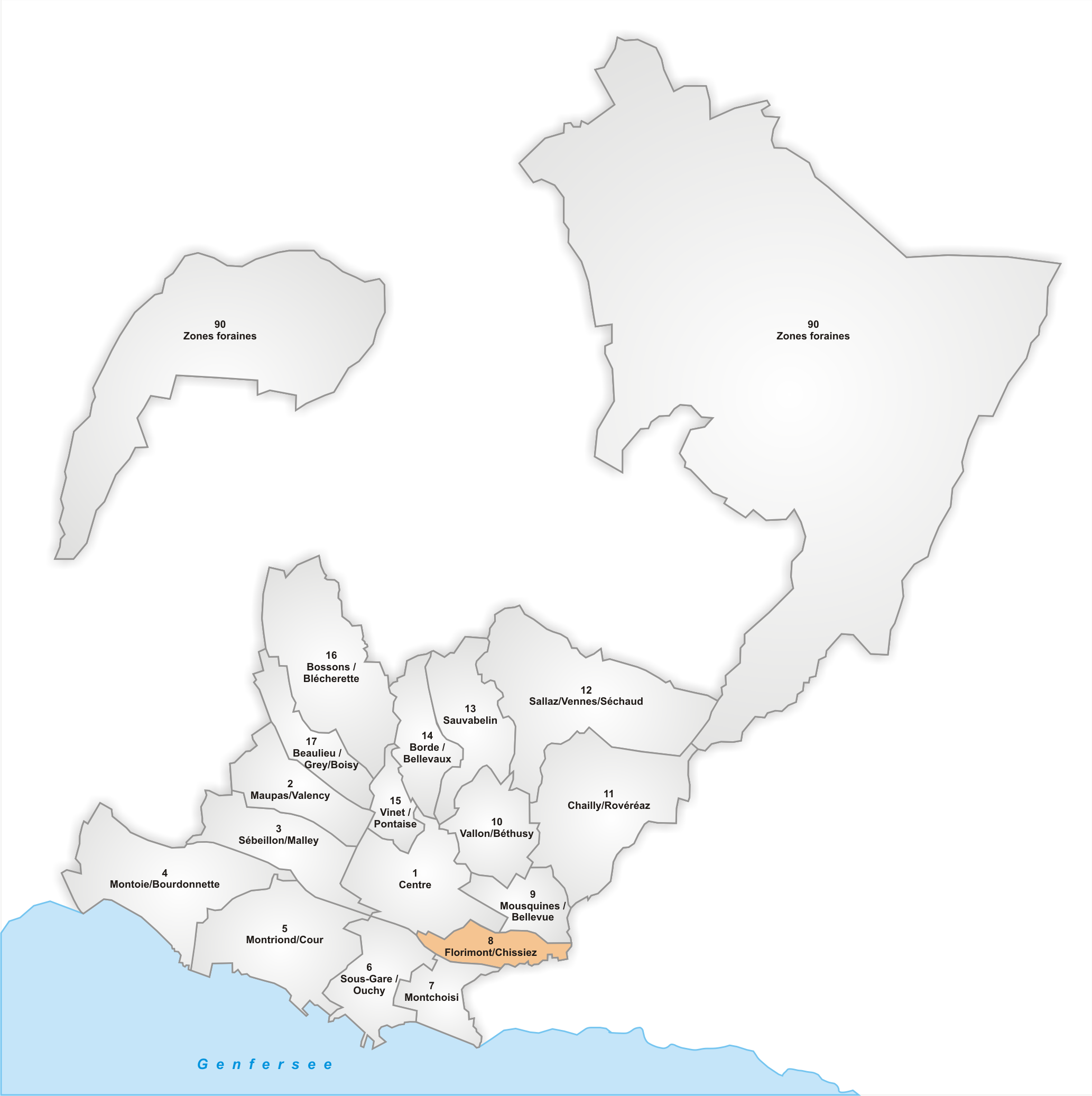 Lausanne Quarter 8